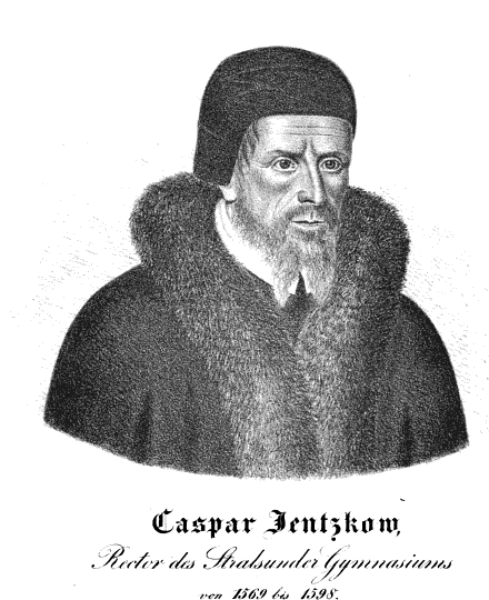 Kaspar Jentzkow